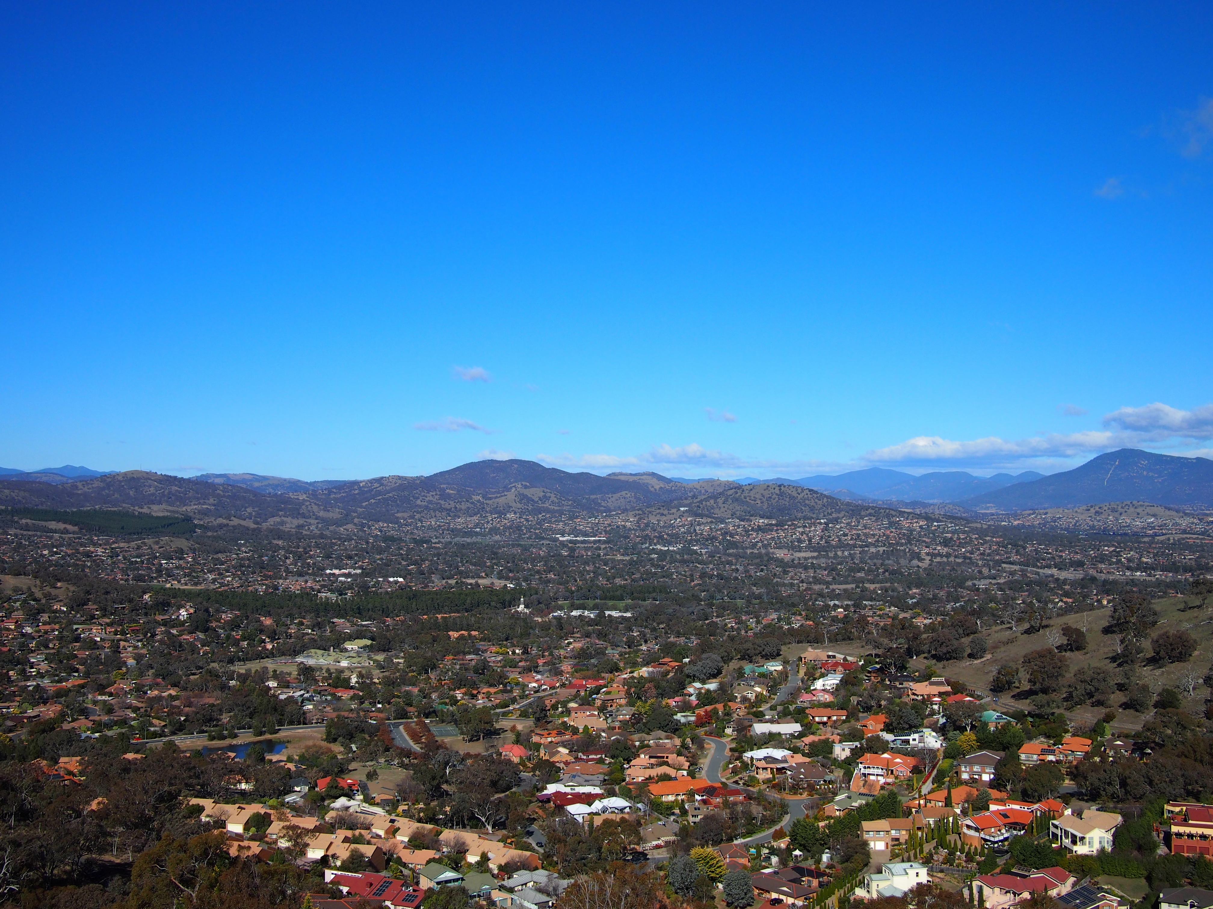 The Tuggeranong Valley viewed from Mount Wanniassa